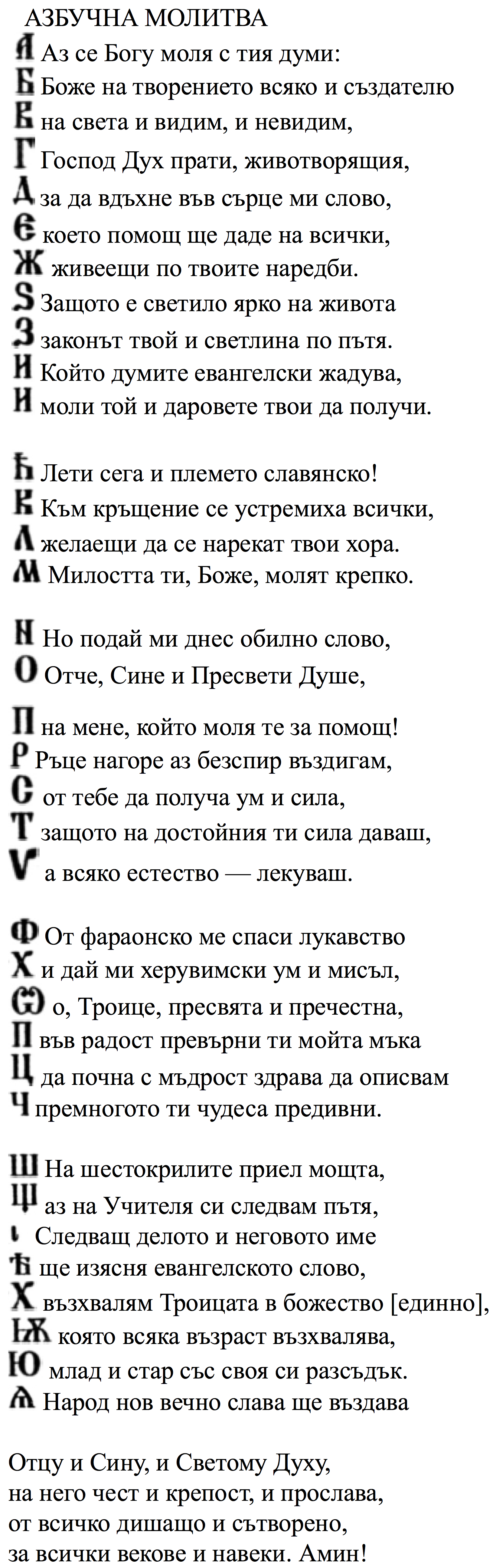 Transcription of the bulgarian abecedarius (alphabetical acrostic) titled "Предговор на Христос, към светлината на Свето Евангелие, написано от Константин" (Preface of Christ, to the light of the Holy Gospel, written by Constantine), by the bulgarian scholar Constantine of Preslav. This poetic-religious work is more easily recognizable by way of its short title "Азбучна молитва" (Alphabetical prayer) and was released circa the second half of the 9th century.